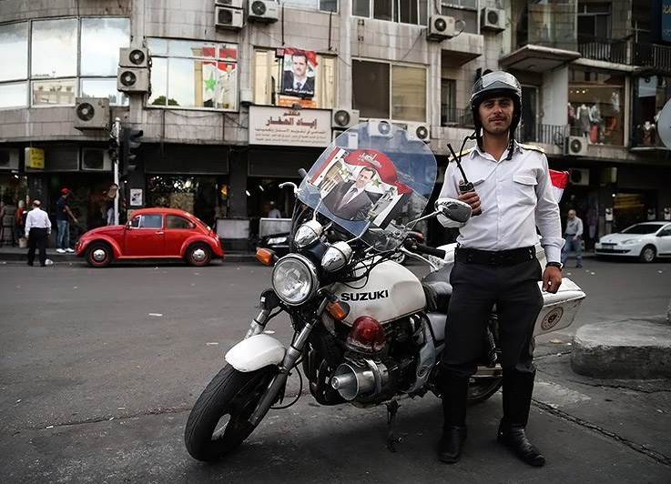 Posters and graffiti are showing Bashar al-Assad cover the streets of Damascus.